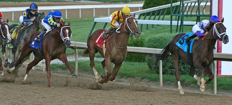 Image by Heather Abounader